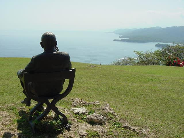 This is a photo that I took myself of Noel Coward's Firefly in February, 2007. Sculpture of Noel Coward by Angela Conner